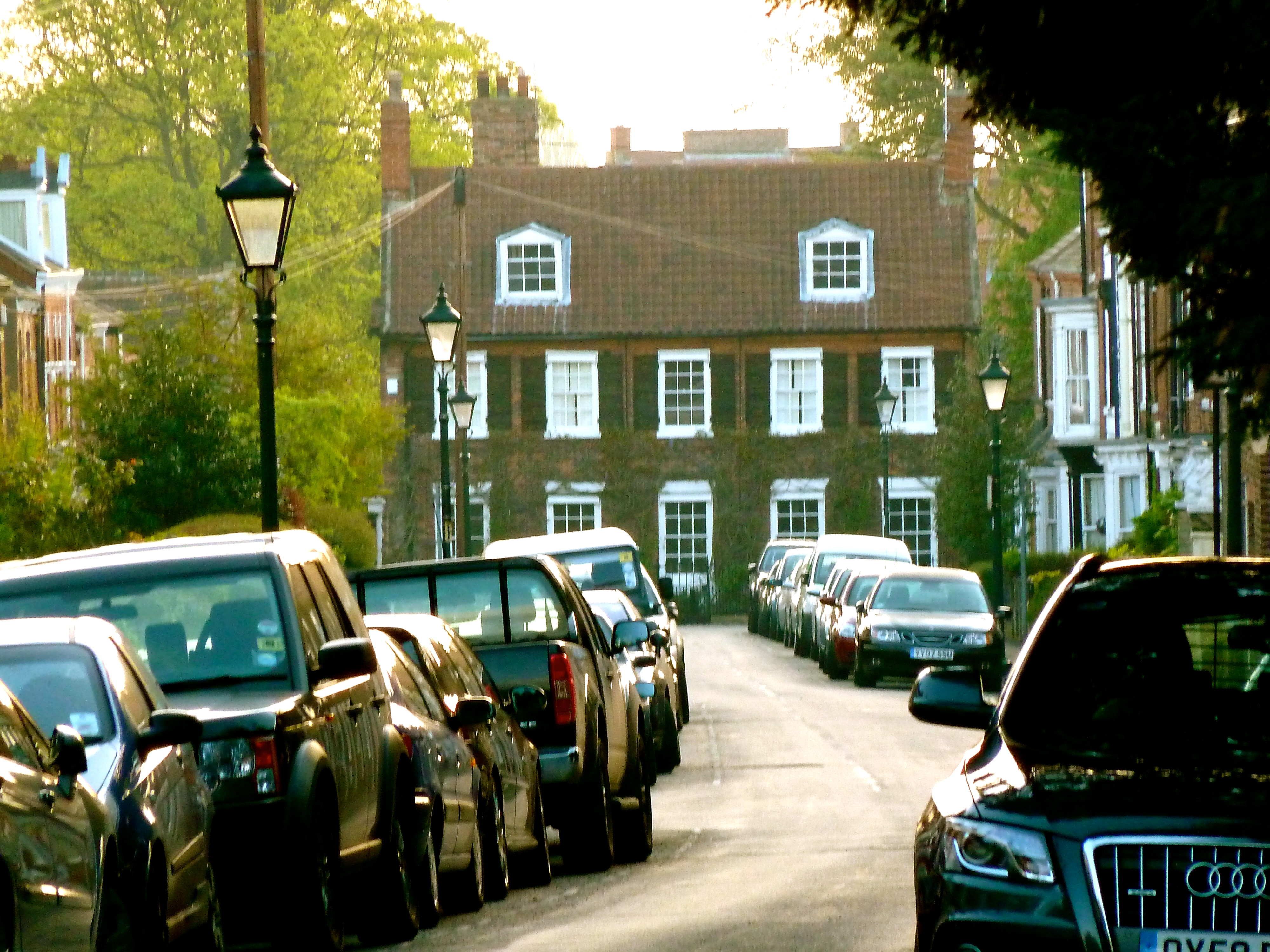 Westwood Road, Beverley, East Riding of Yorkshire, England